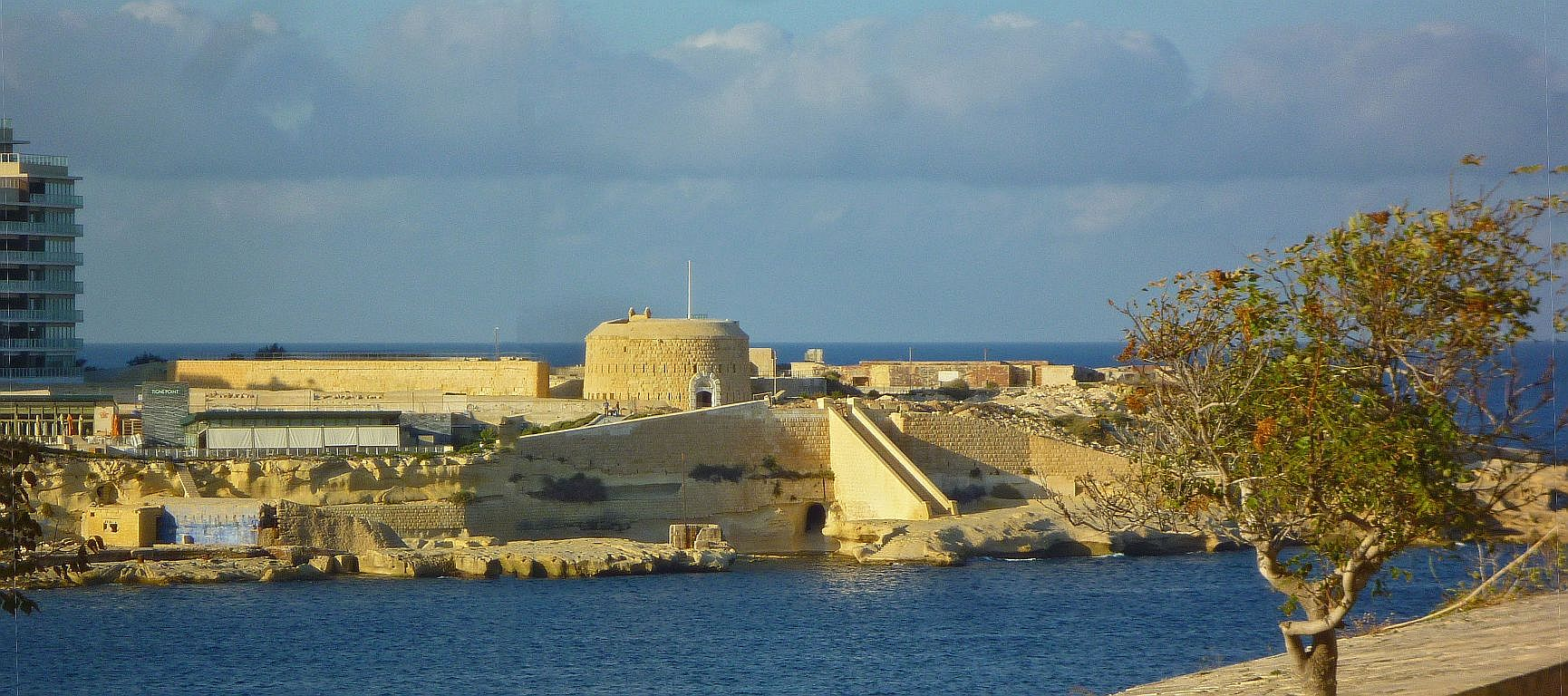 Fort Tigne seen from Valletta, Malta